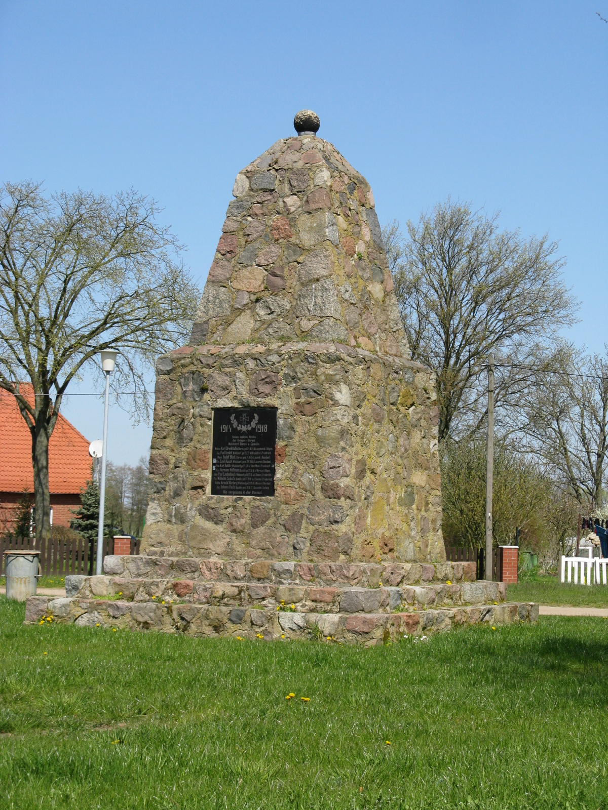 War memorial in Wahlstorf, Mecklenburg-Vorpommern, Germany